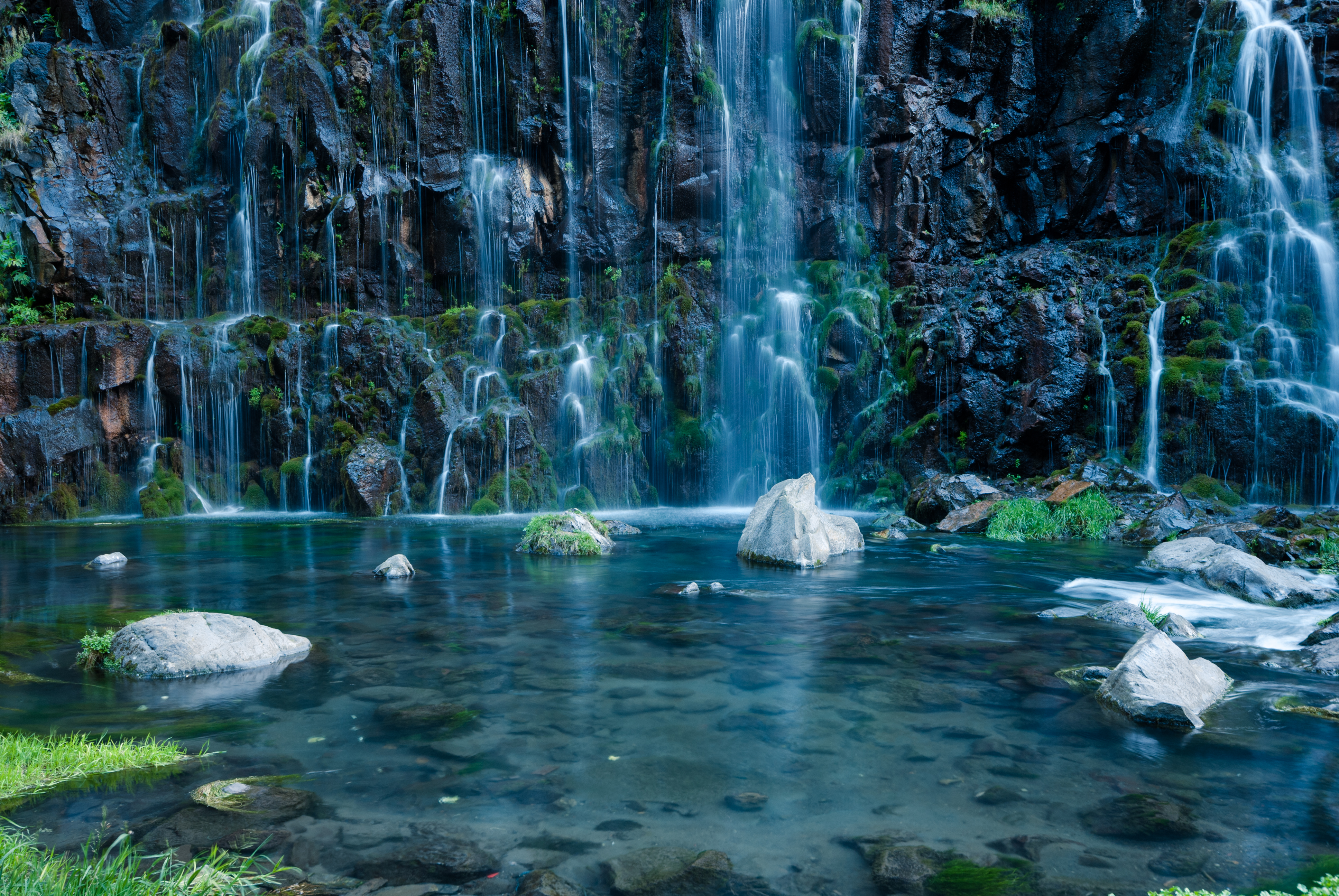 Dashbashi Waterfall, Georgia